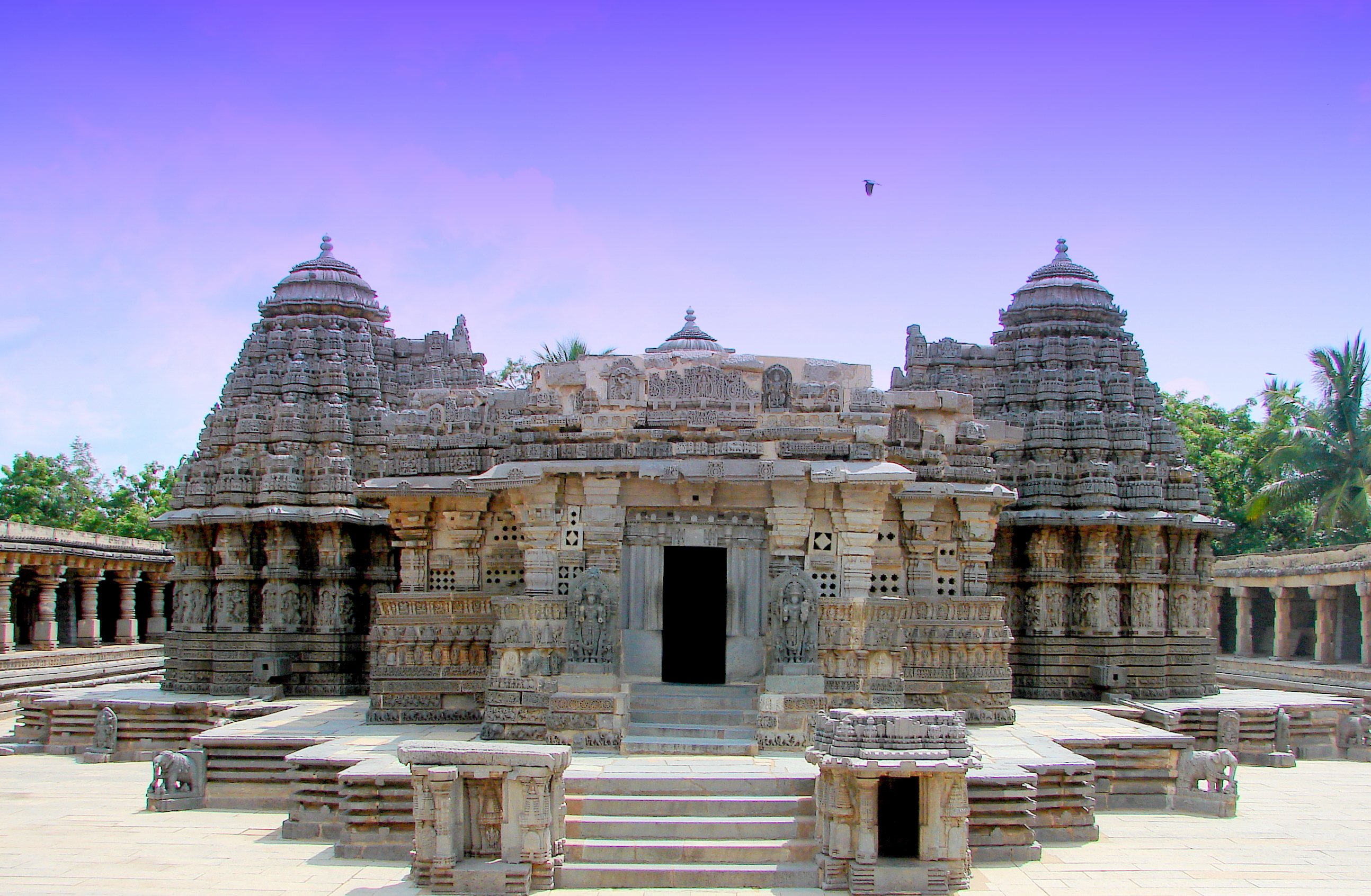 Derivative of work uploaded by user:Dineshkannambadi on wikipedia